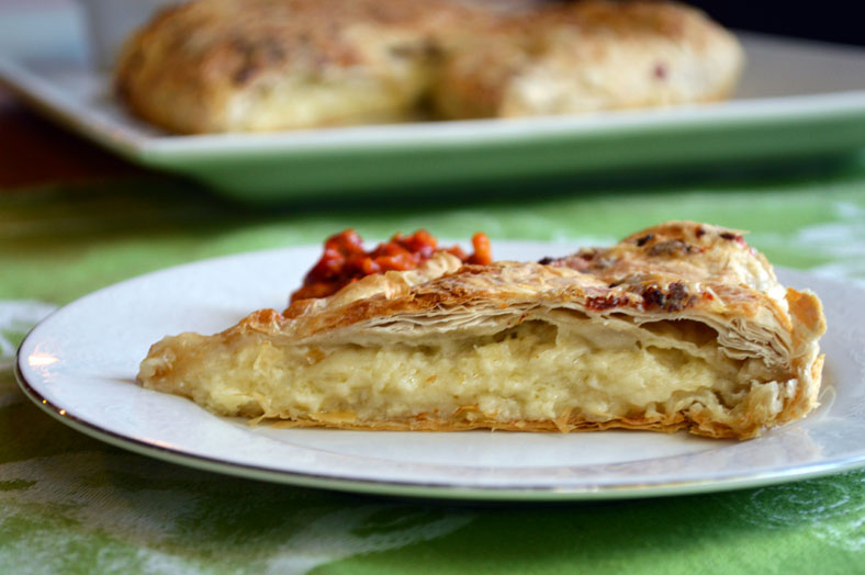 Single slice of Gibanica with pie and ajvar in the background